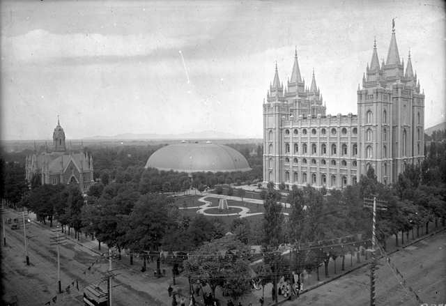 View of Temple Square in Salt Lake City, Utah looking North West from the corner of Main and South Temple. The Three primary structures are, from left-to-right, the church-like Salt Lake Assembly Hall, the domed Tabernacle, and the Salt Lake Temple.